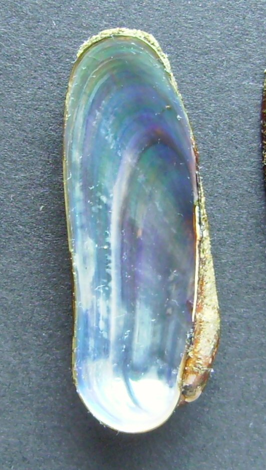 Zelithophaga truncata (inside) from Browns Bay, Auckland, New Zealand. This work has been released into the public domain by its author, Graham Bould. This applies worldwide.In some countries this may not be legally possible; if so:Graham Bould grants anyone the right to use this work for any purpose, without any conditions, unless such conditions are required by law.